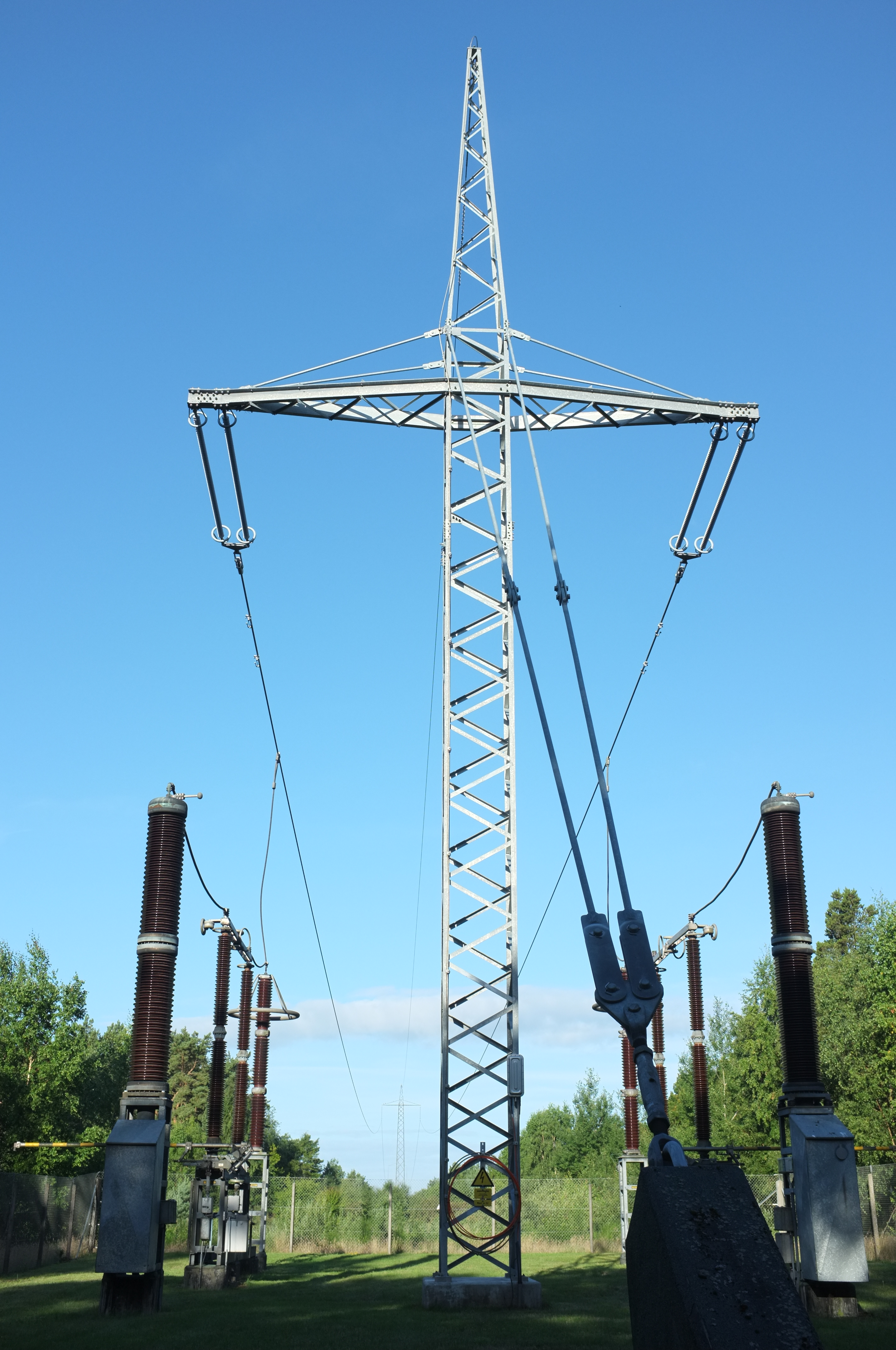 The Cable station Læsø Øst (Østerby Cable Terminal) in proximity to Østerby Havn. The High-voltage direct current line Konti-Skan runs above the surface to the west of the station and below surface to the east.